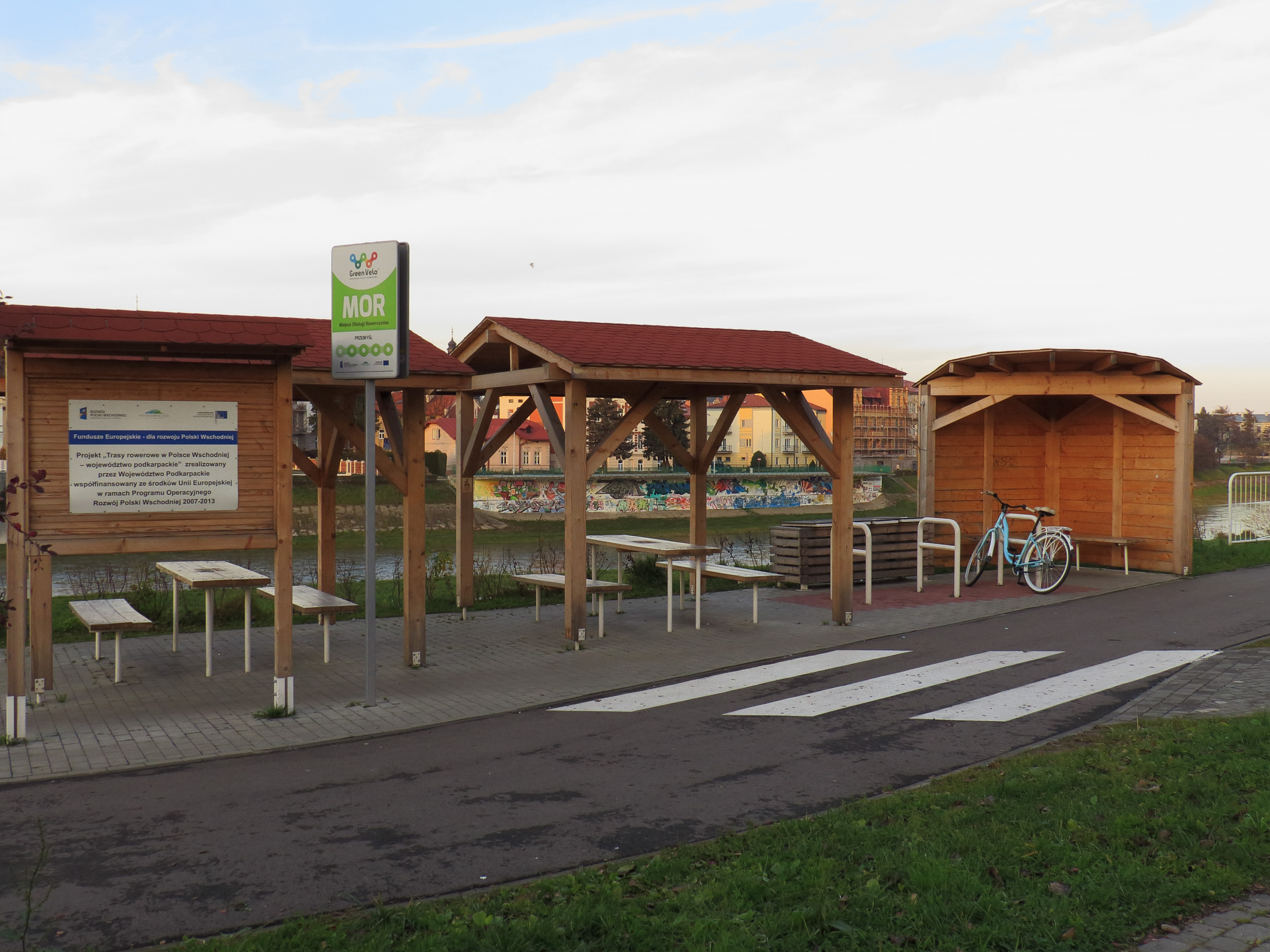 Green Velo bicycle parking lot in Przemyśl.